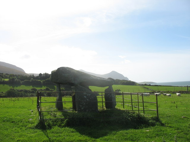 A Communal Grave Betwix Hill and Sea. Another view of the Bach Wen Cromlech, this time from the north.